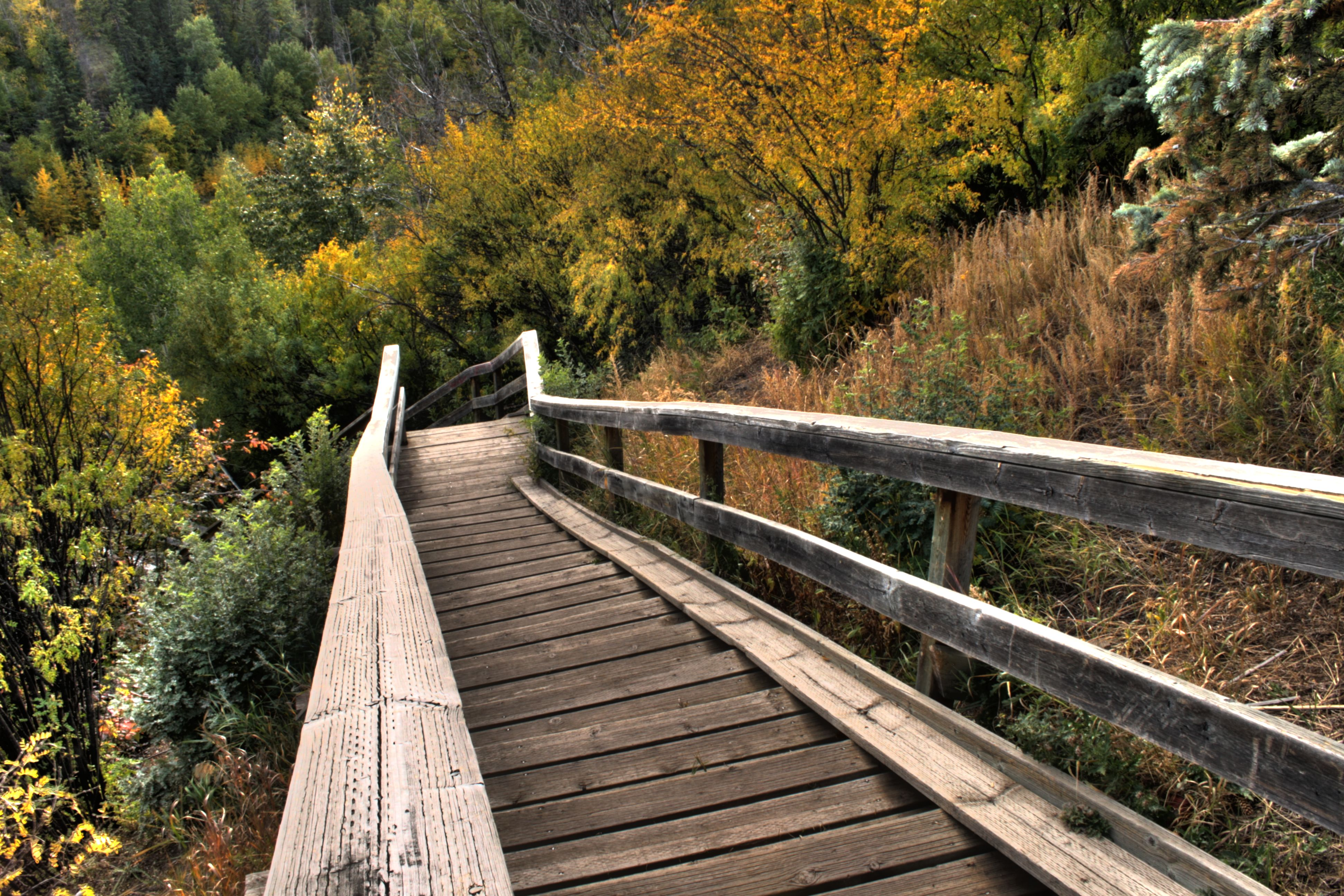 A wooden staircase descending into the North Saskatchewan River valley from the Glenora neighborhood in Edmonton, Alberta, Canada.